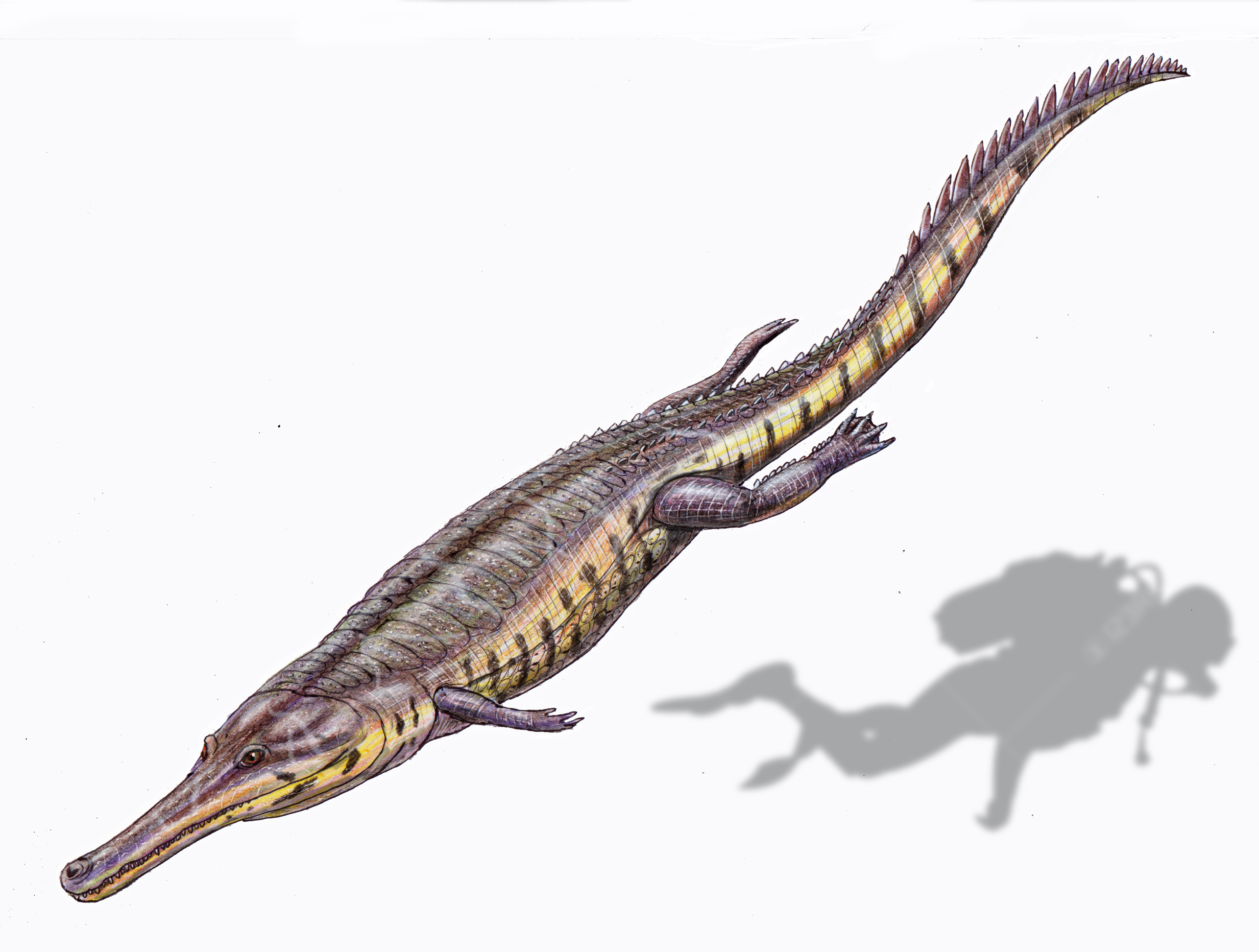 Reconstruction of Machimosaurus , Late Jurassic sea crocodile (Teleosauridae )